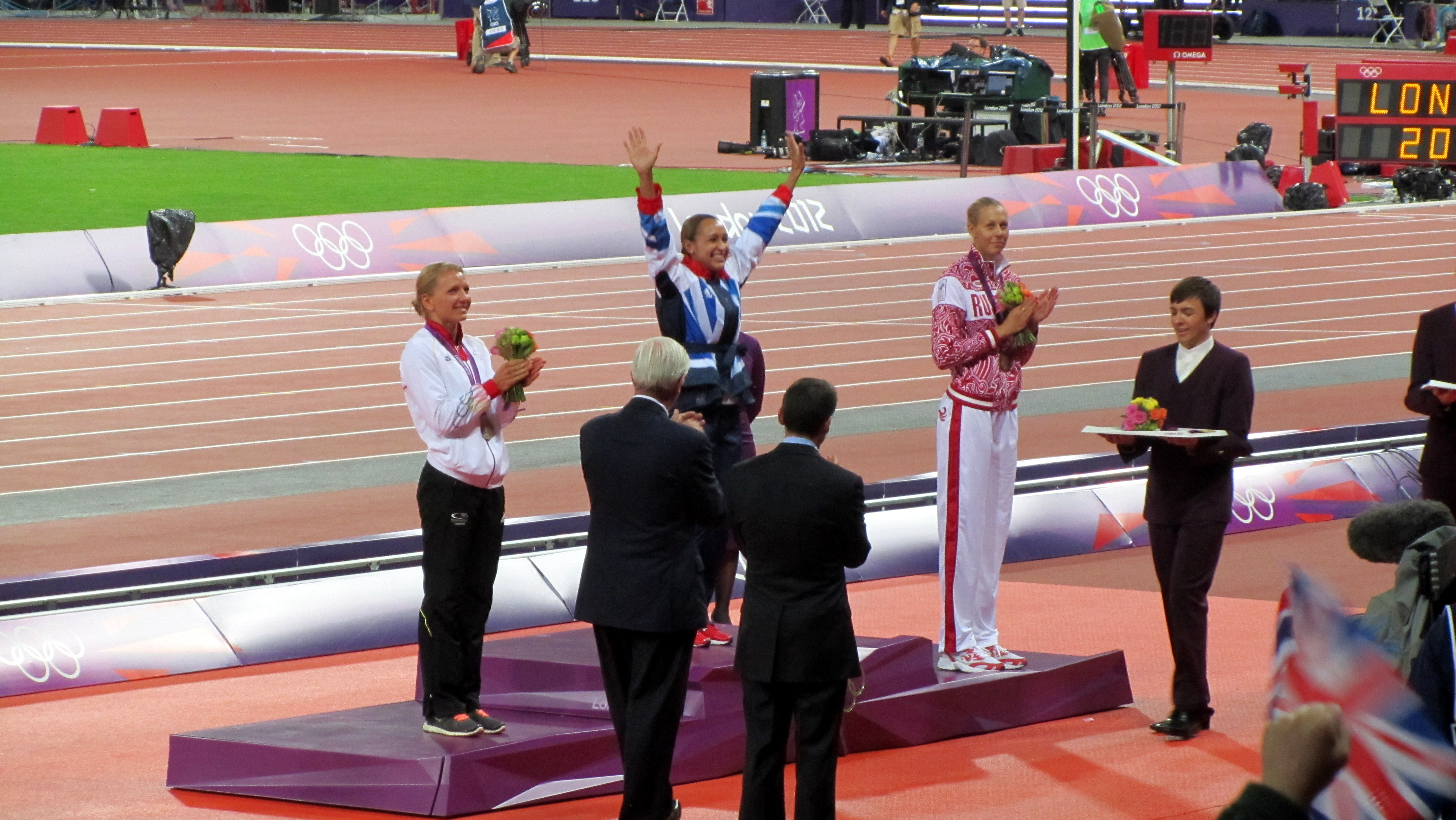 Gold: Jessica Ennis (Great Britain and Northern Ireland); Lilli Schwarzkopf (Germany); Tatyana Chernova (Russia)